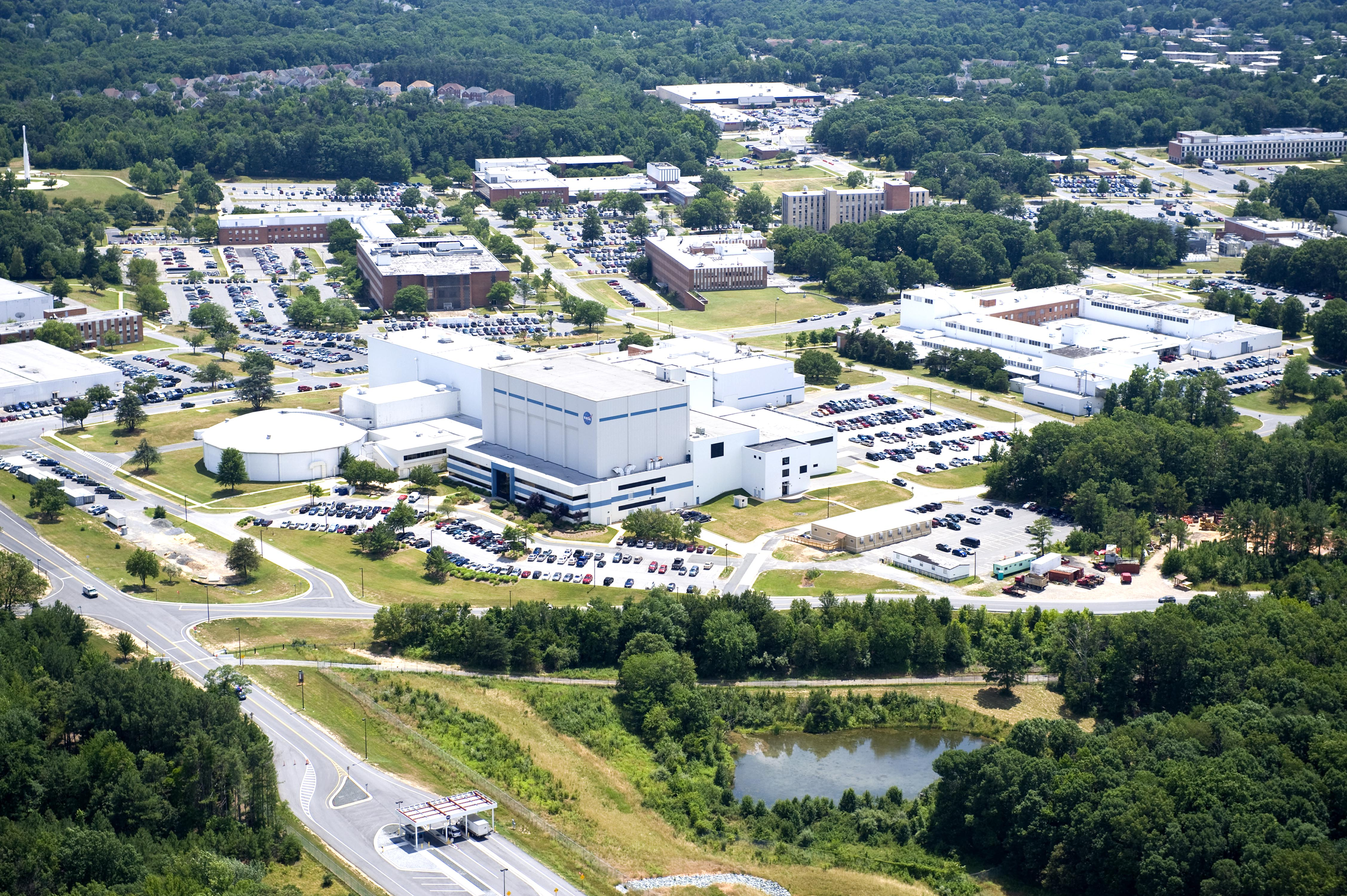 NASA Goddard Space Flight Center Aerial view 2010 facing south. Photo owned by government license and published on Flickr.